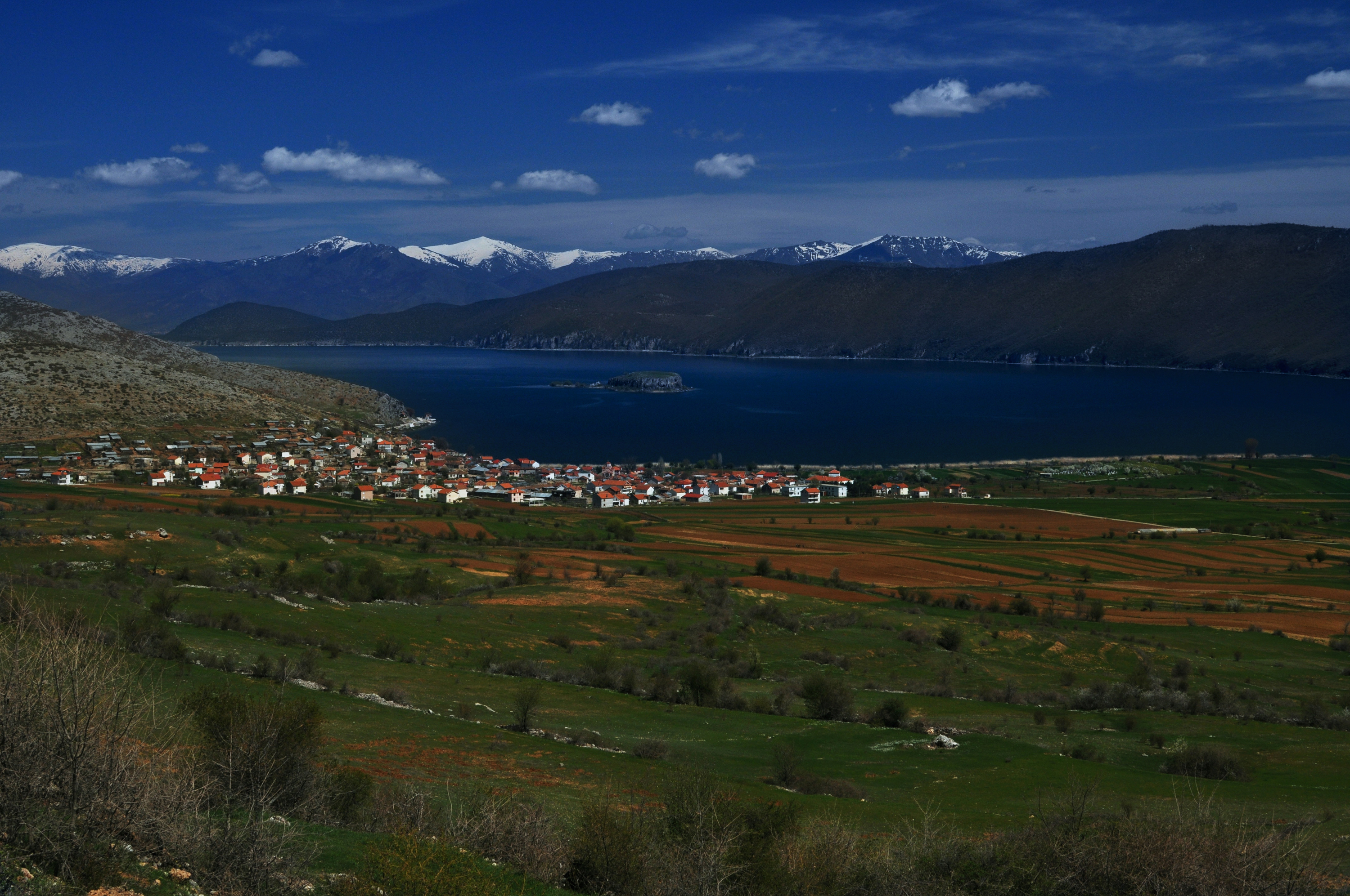 Prespa Lake a view from Albania